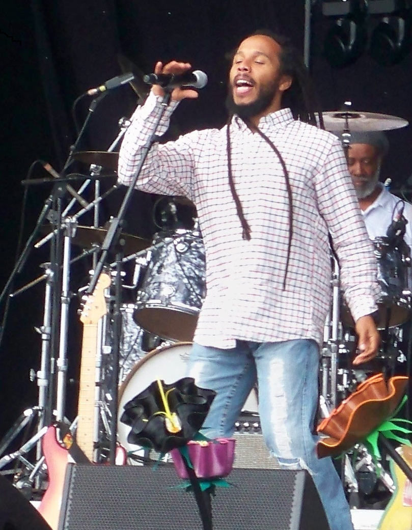 Ziggy Marley singing live on the Main Stage at Guilfest 2011.